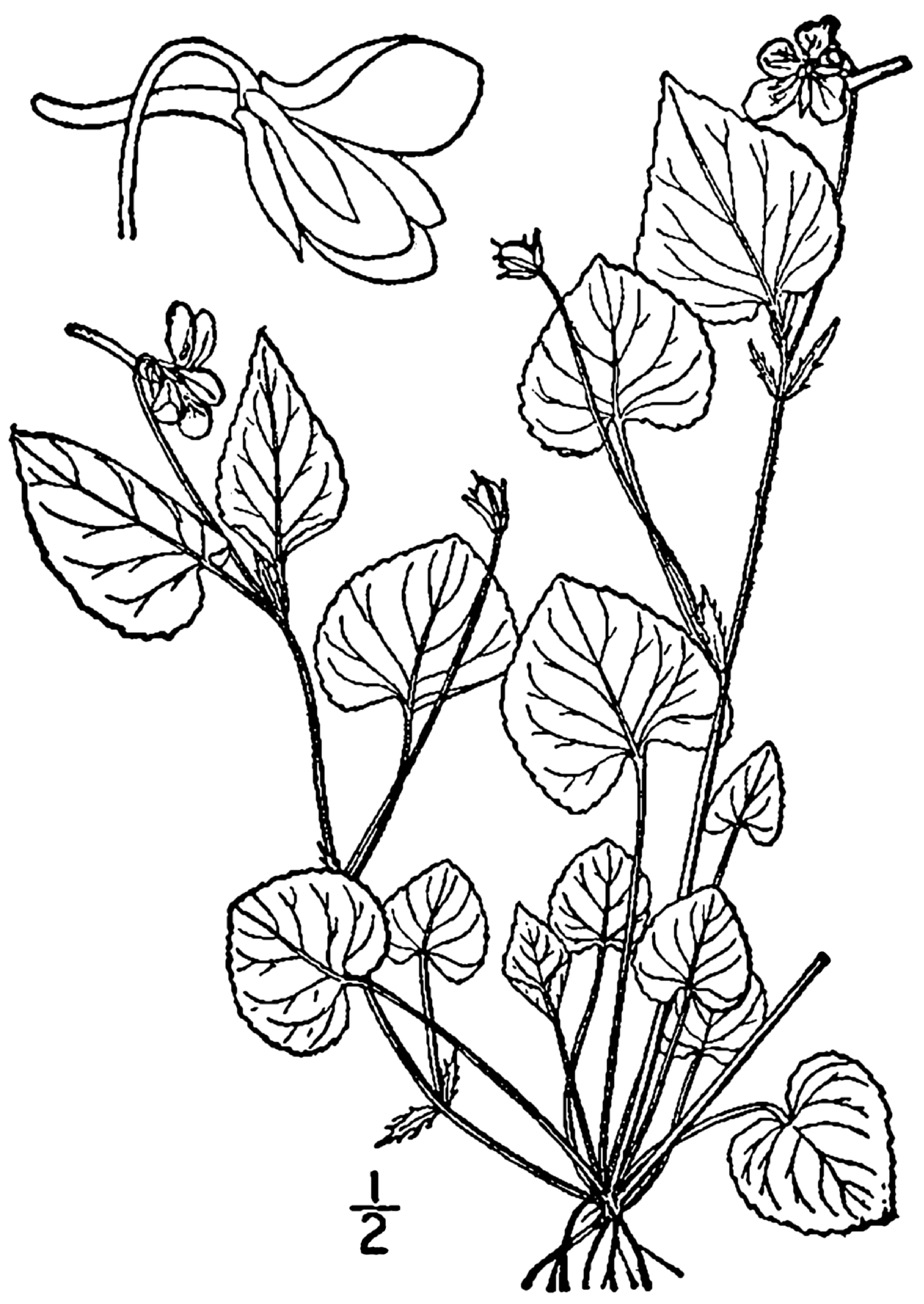 Viola rostrata Pursh - longspur violet